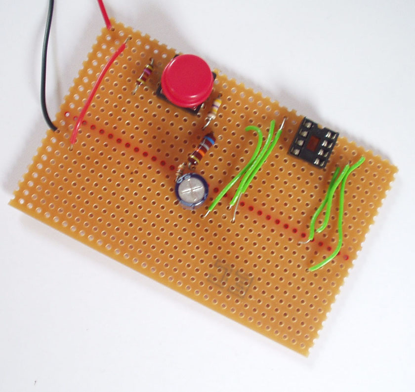 A piece of stripboard with wires, resistors, a switch, capacitior and IC component holder soldered onto it.